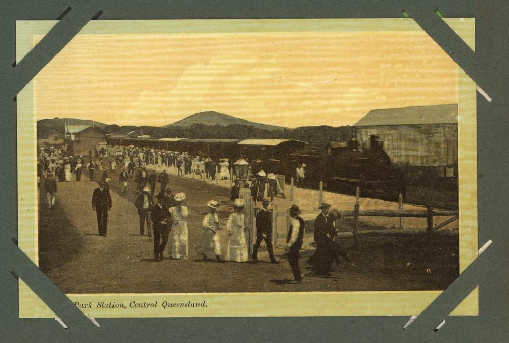 Passengers at the Emu Park Railway Station near Rockhampton. Women dressed in light coloured dresses and straw hats walking to the Emu Park Railway Station. The men are wearing suits and some are in blazers and slacks.